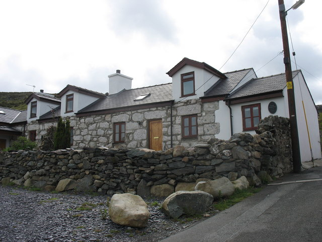 Ty'r Mynydd, Mountain Street, Rachub. Ty'r Mynydd simply means 'smallholding in the mountain'. This cottage, which has been renovated and enlarged in recent years, bears a plaque celebrating the Welsh artist and writer, Brenda Chamberlain (1912-1971). Brenda Chamberlain is best remembered for her paintings of Bardsey Island fishermen. She lived on Bardsey SH1121 for some years.